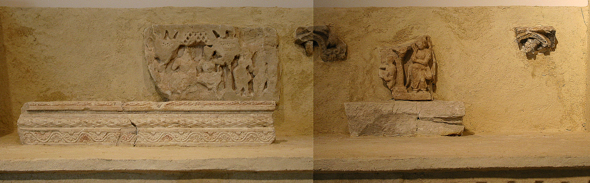 Third tier of Stupa C1